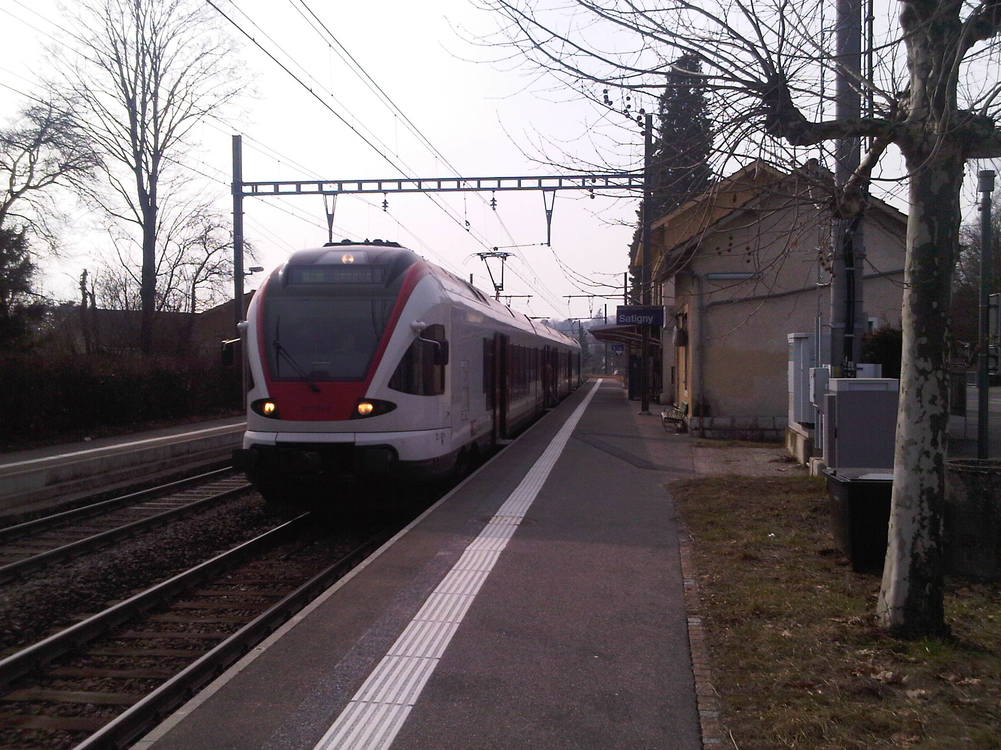 Satigny Station, with a Stadler 'FLIRT' RABe 524 EMU under DC catenary about to depart for Geneva Cornavin.